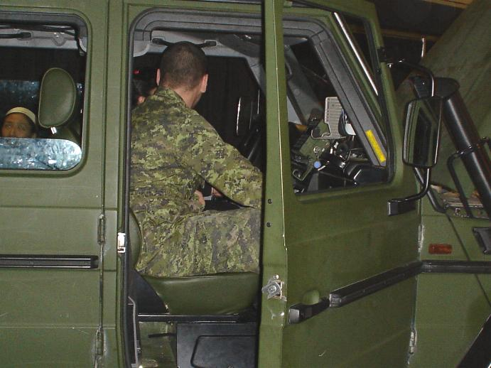 Canadian Soldier in the G-Wagen